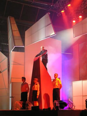 Jan Peszek in concert "Honor jest wasz Solidarni".